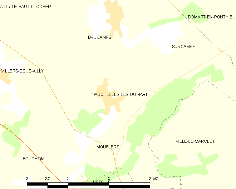 Map of French municipality Vauchelles-lès-Domart